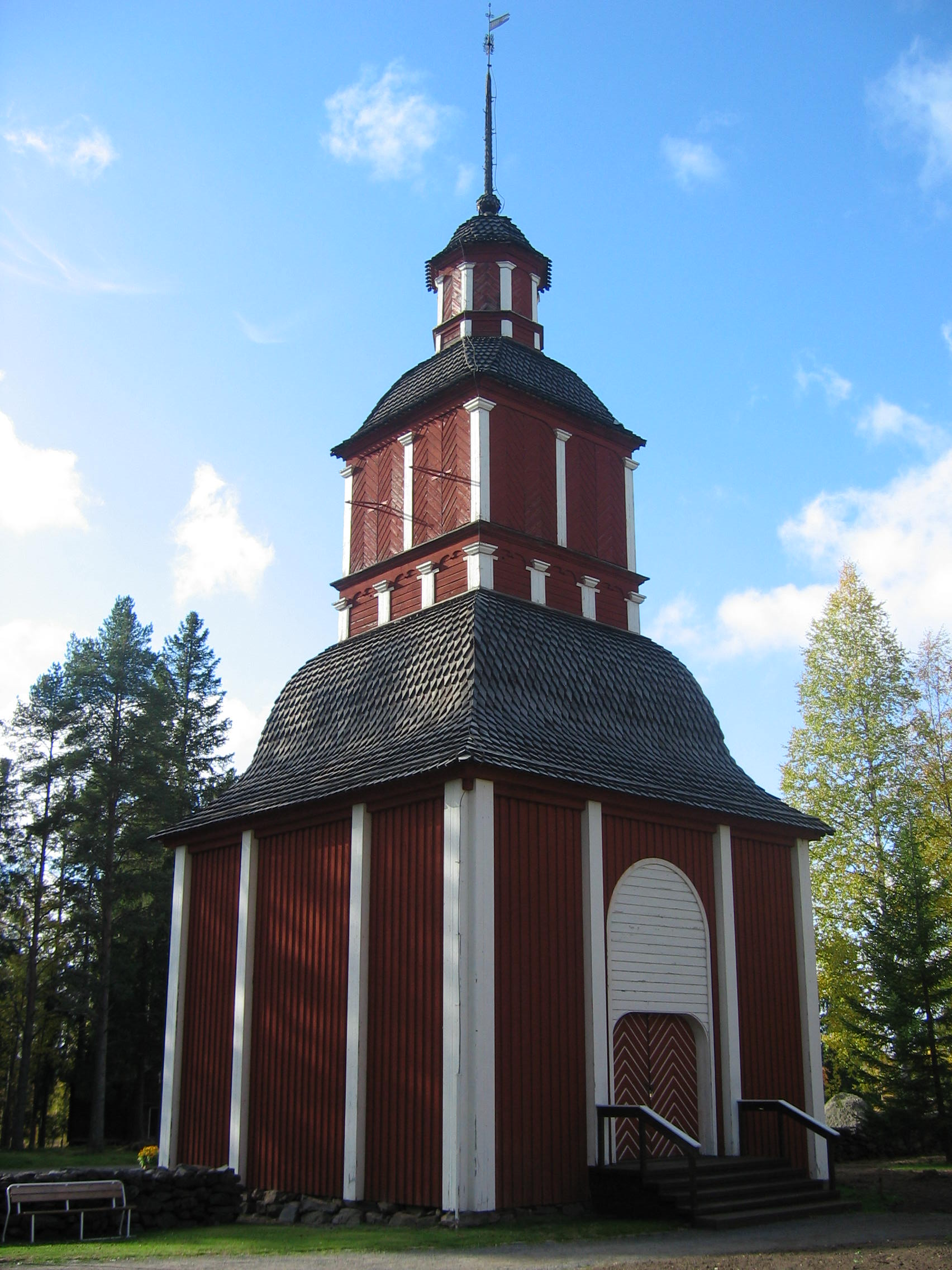 The belltower of the Lutheran church of the municipality of Kiiminki, Finland.